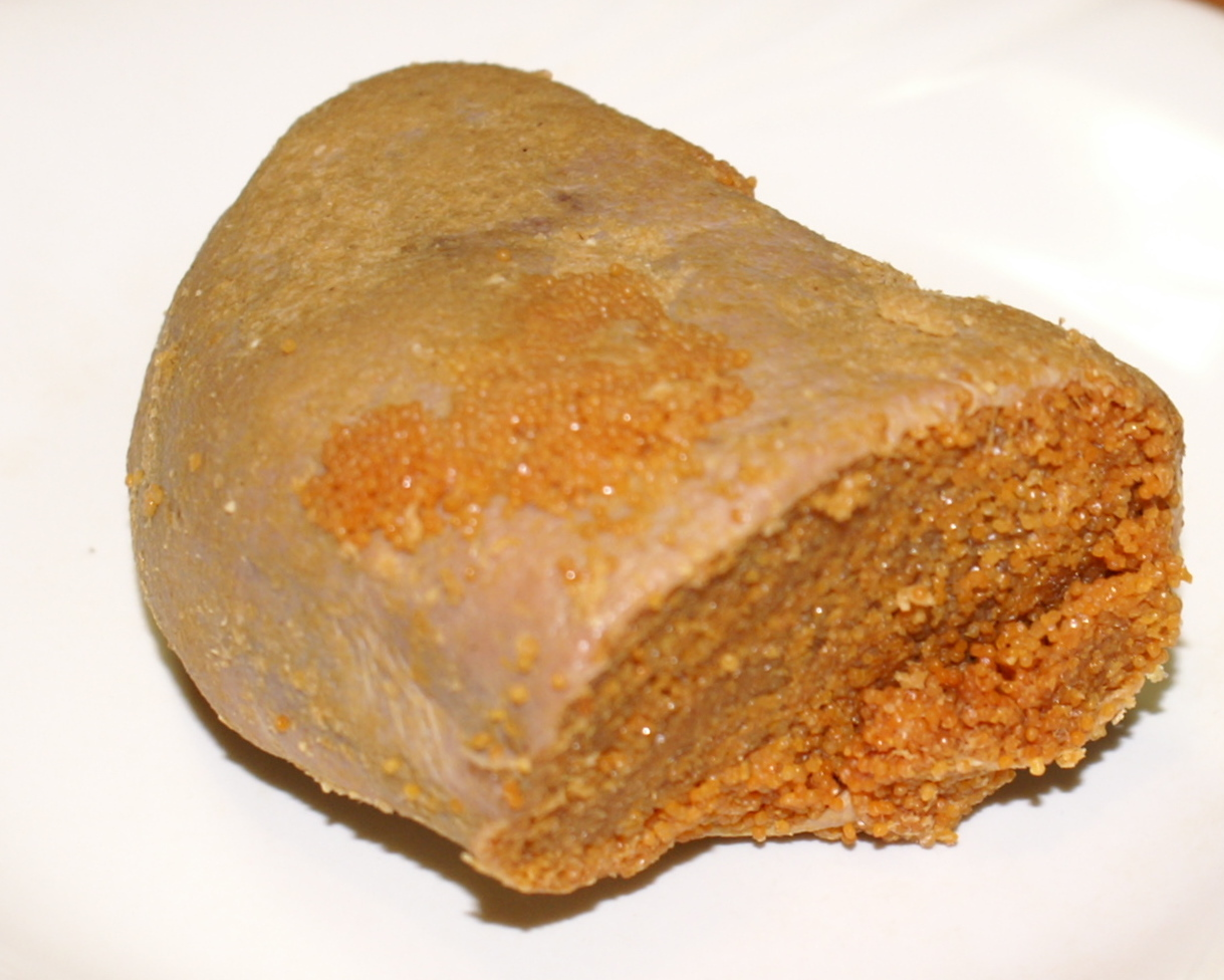 Puffer fish roe (Fugu no ransou nukazuke) — which would otherwise be deadly poisonous — is rendered innoxious by being pickled in rice bran (nuka).